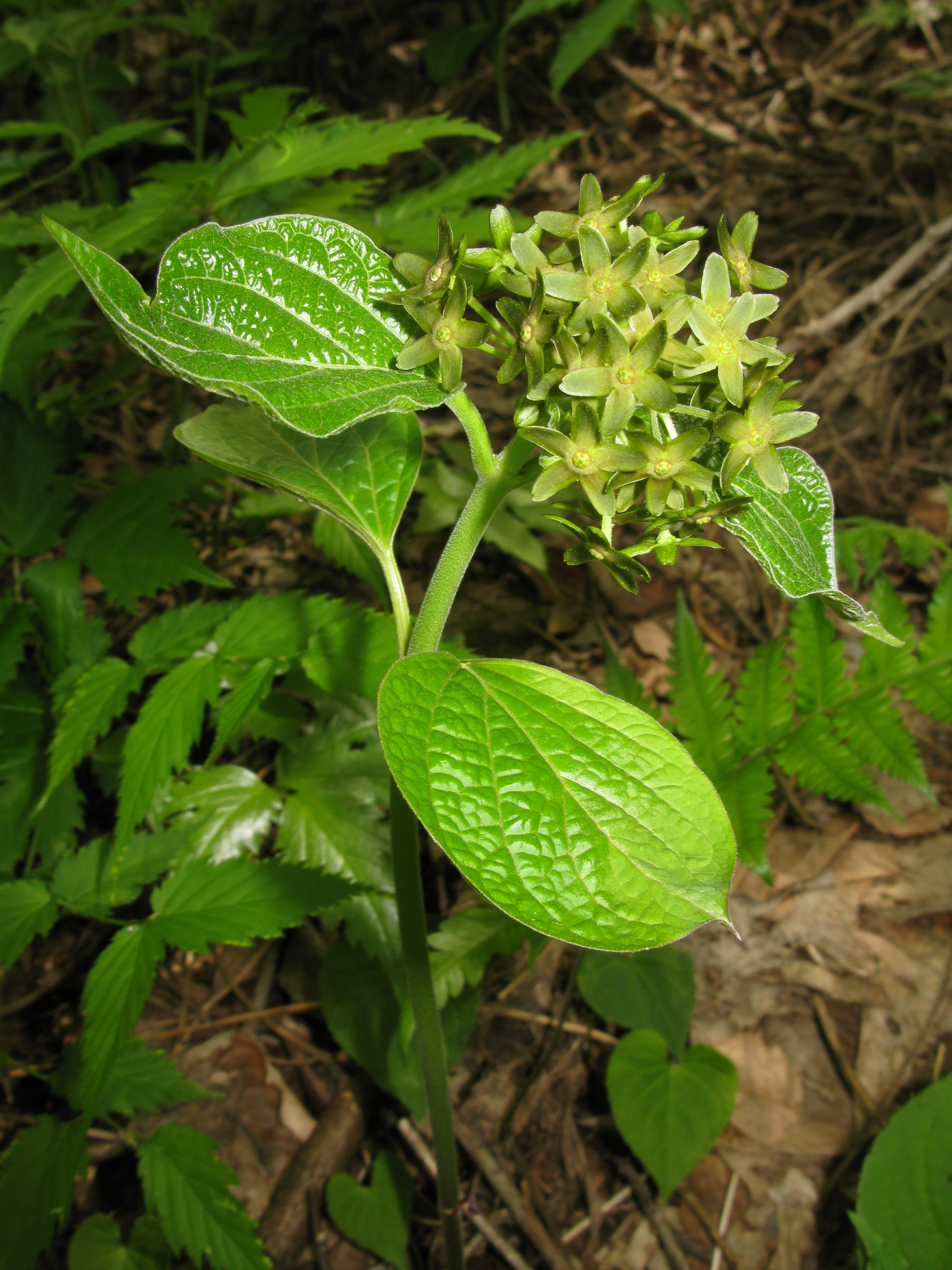 Vincetoxicum magnificum, Fukushima city, Fukushima pref., Japan